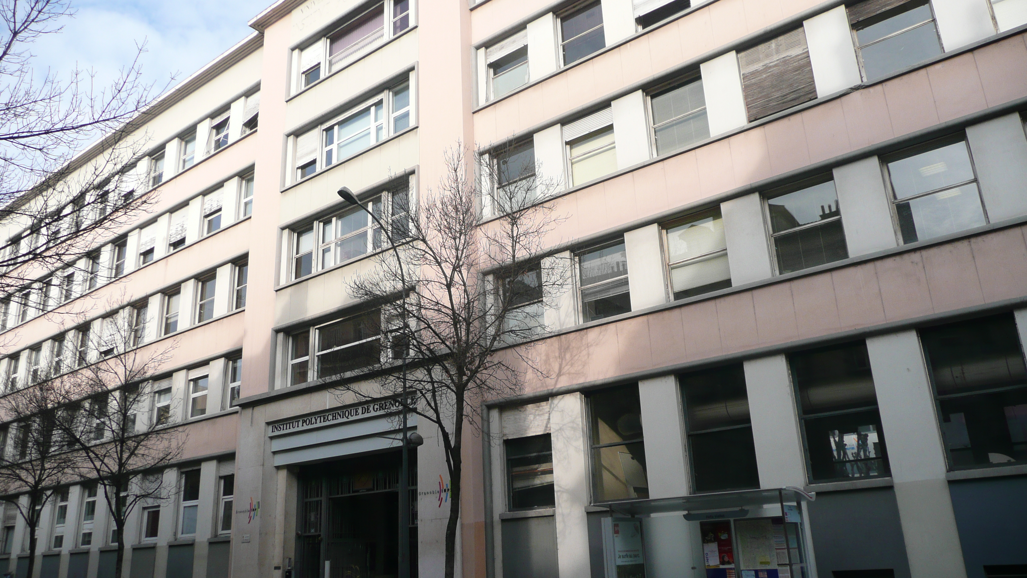 Institut of Technology in Grenoble